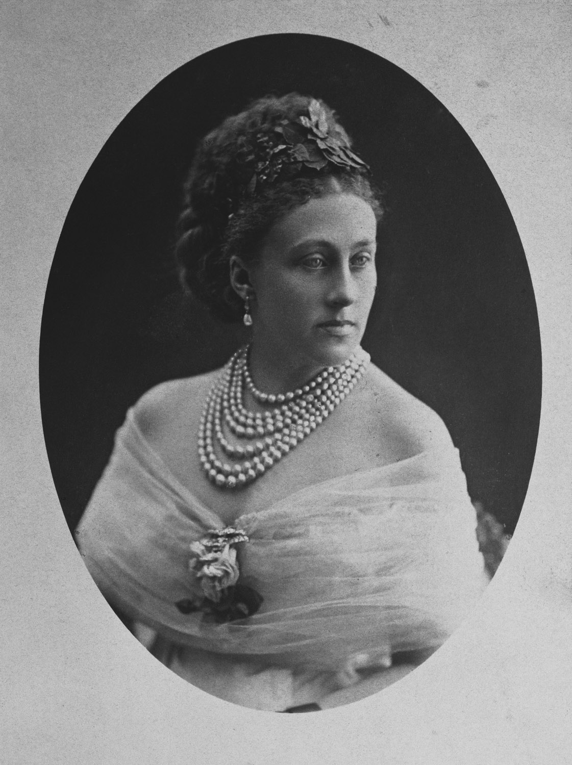 Louise Montagu, Duchess of Manchester (1832-1911), later Duchess of Devonshire